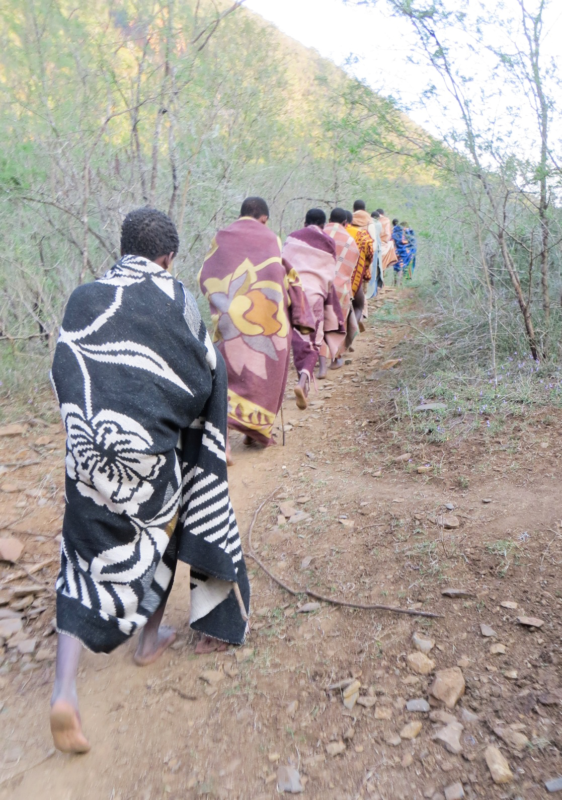 Abakwetha walking through a forest during their Ulwaluko.